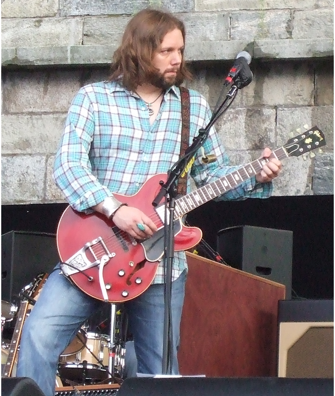 Rich Robinson playing a 1964 Gibson ES-335 guitar with the Black Crowes at the 2008 Newport Folk Festival